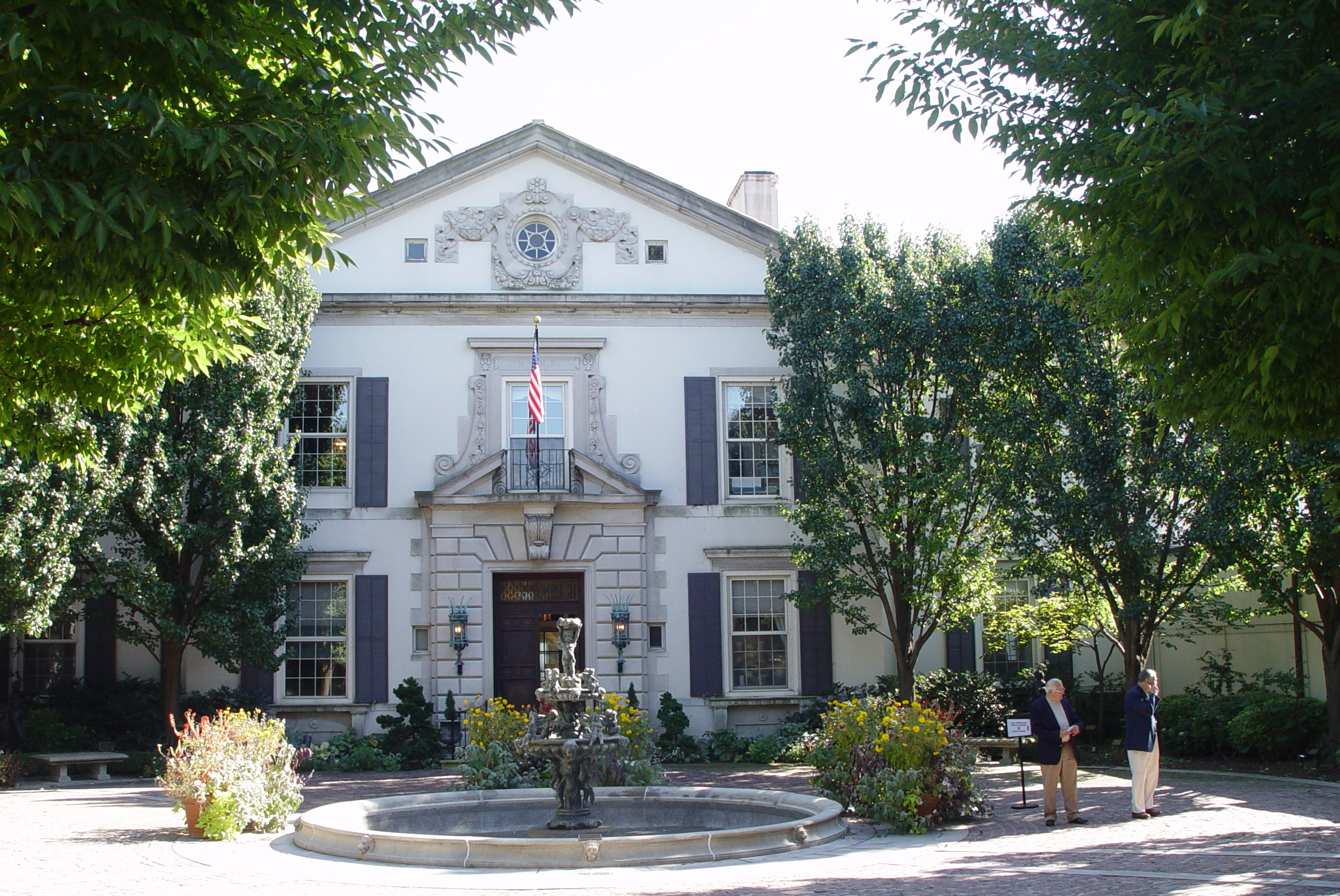 Russel A. Alger House, "The Moorings". The Grosse Pointe War Memorial Association